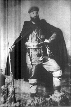 Portrait of Stoyan Topuzov